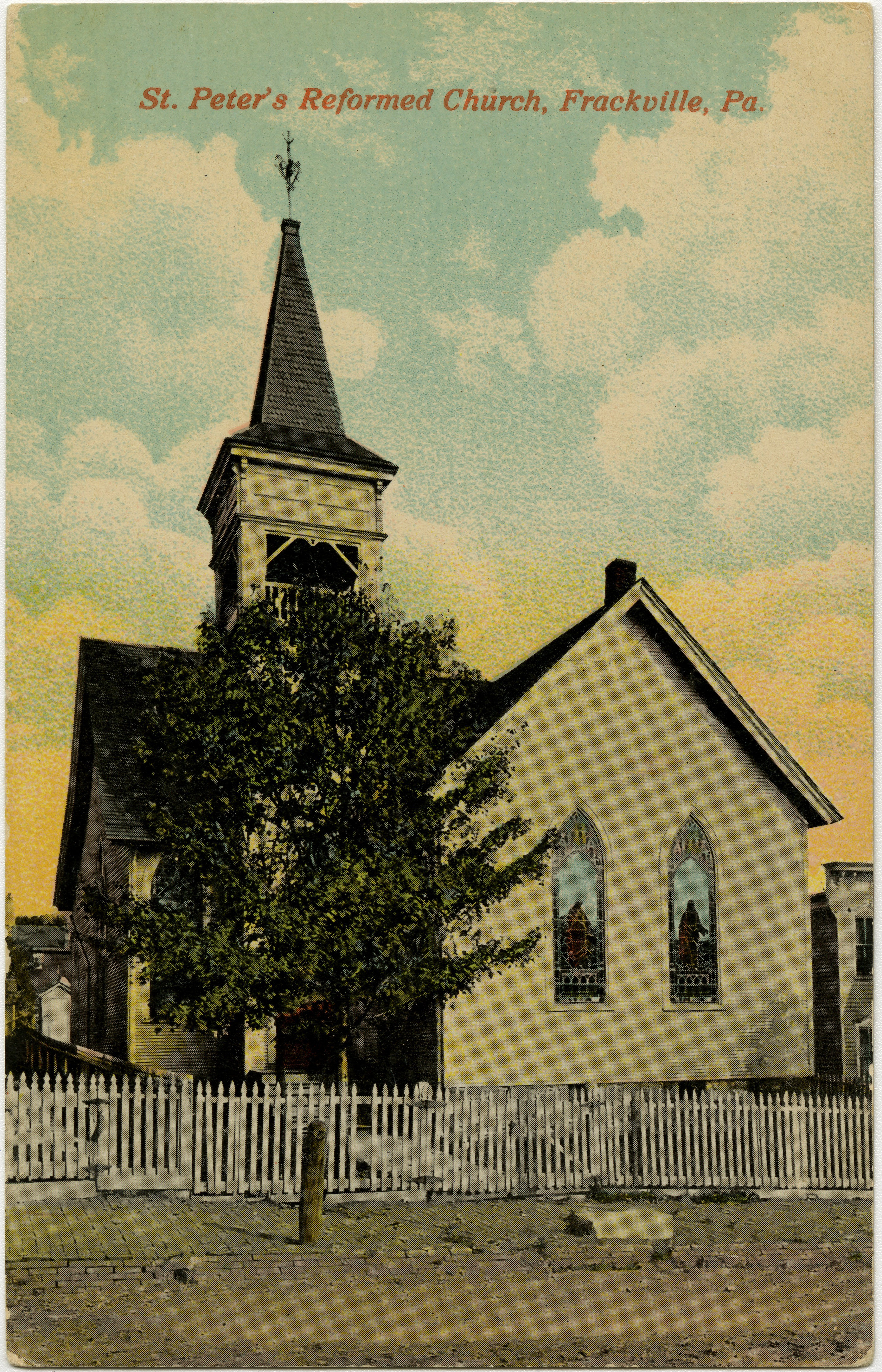 St. Peter's Reformed Church in Frackville, Pennsylvania from a pre-1923 postcard From RG 428, Postcard Collection, Presbyterian Historical Society, Philadelphia, Pennsylvania.